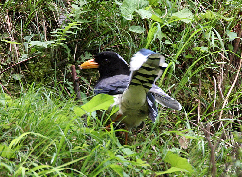 Yellow-billed Blue Magpie Urocissa flavirostris at Kullu District of Himachal Pradesh, India. This bird created lot of interest among the trekkers by its sheer beauty. Their music enhanced when pairs of them were seen courting, displaying, flying & calling together, moving from one branch to another, from higher altitude to lower one in slow steps. Breeding Territory was successfully defended by many birds as & when these birds entered into their domain. These birds were themselves busy in collecting nesting material etc. Taken at Pulga village (7000 ft.) at 11 hrs. on 12/5/07 while returning back from Sar Pass.